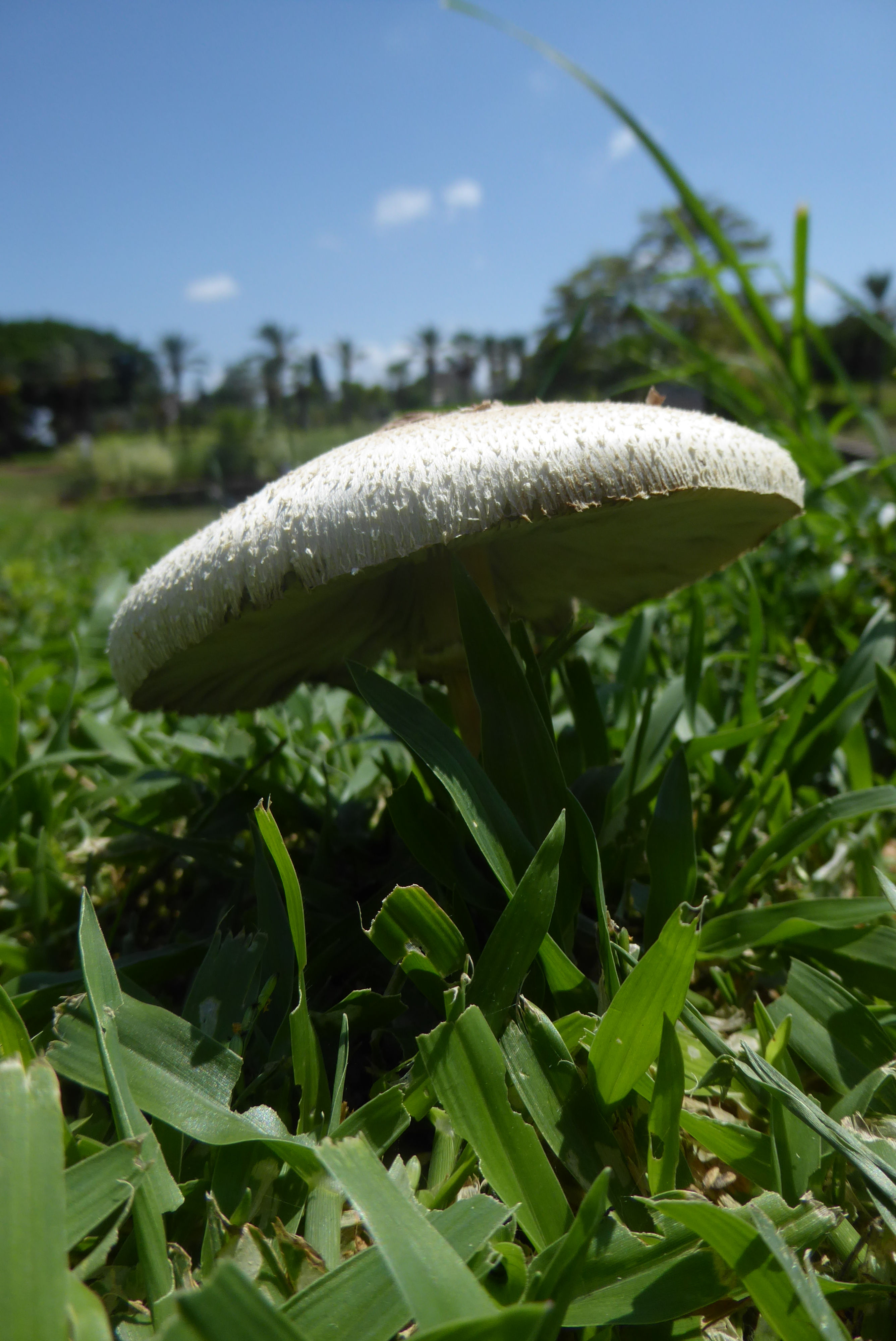 Edith Wolfson Park